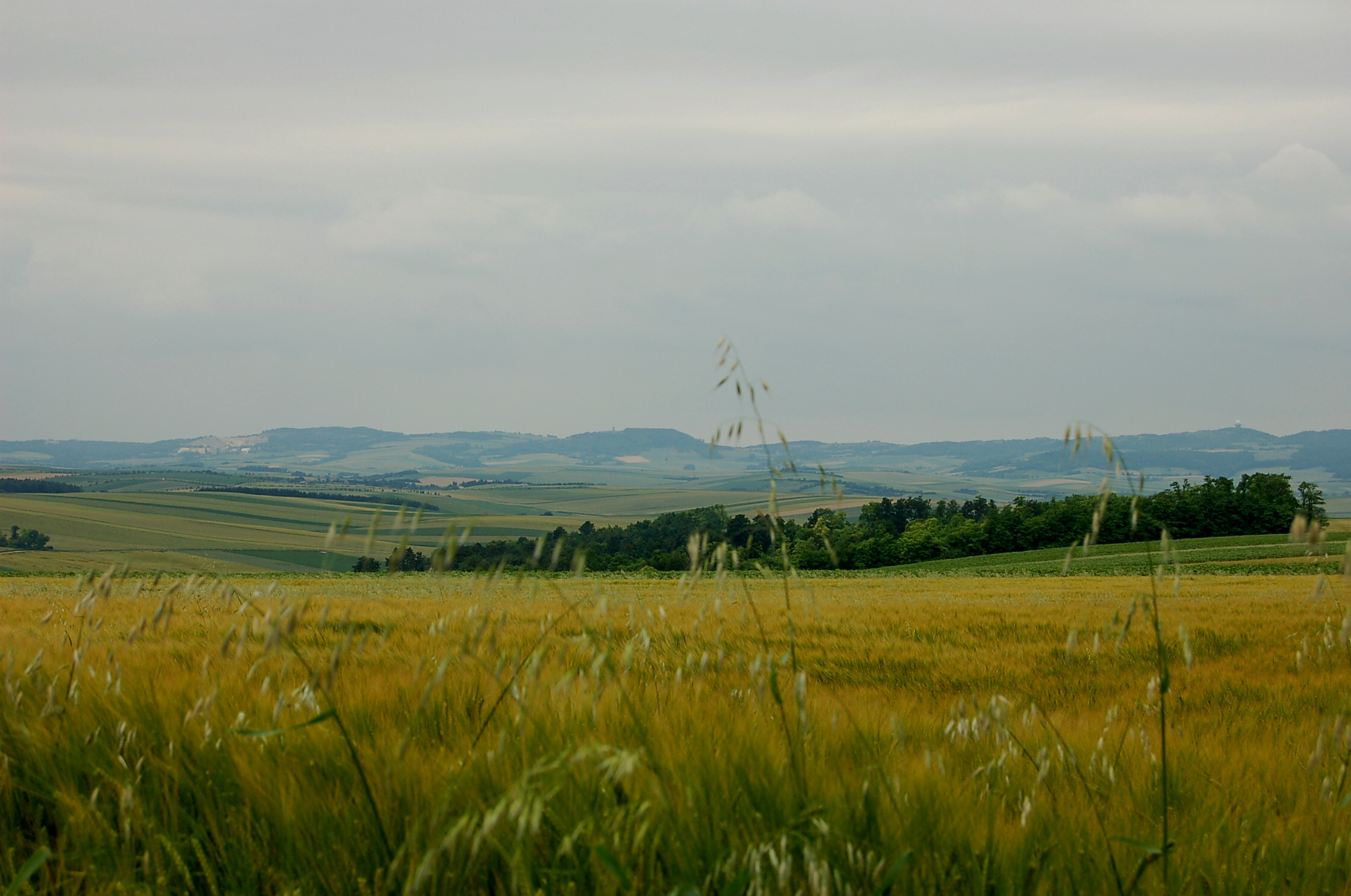 Panorama view of the Leiser Berge. Left the quarry of Ernstbrunn, centre Oberleiser Berg with a lookout tower, right Buschberg with an aviation radar dome.